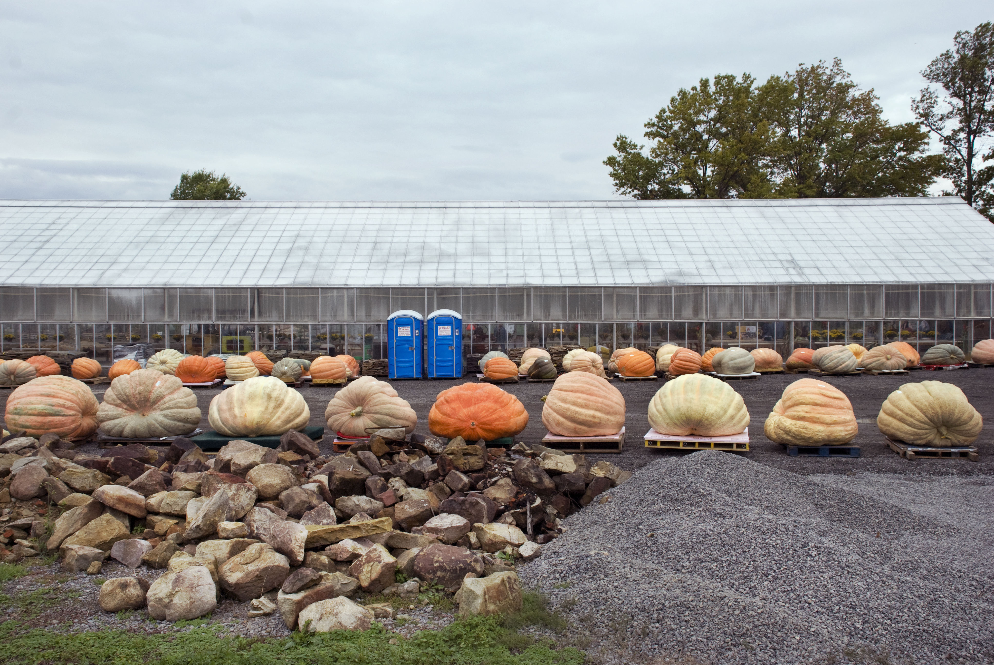 A view of the line-up at the Weigh-Off, pumpkins at an Ohio county fair.